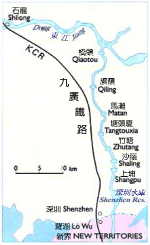 Water supply in Hong Kong, 香港供水